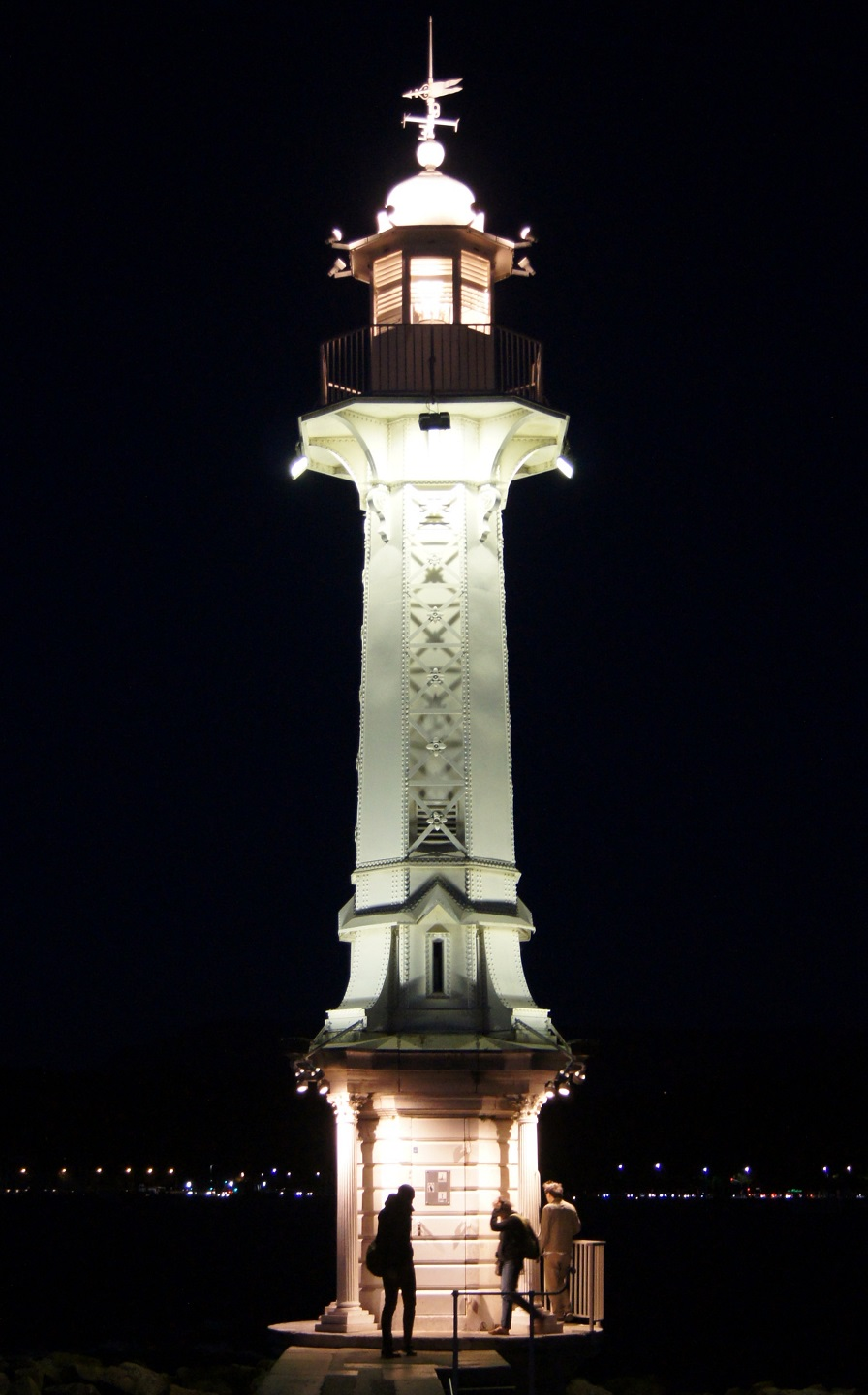 Phare des Pâquis, lighthouse of Les Pâquis, Geneva - in the night 2018